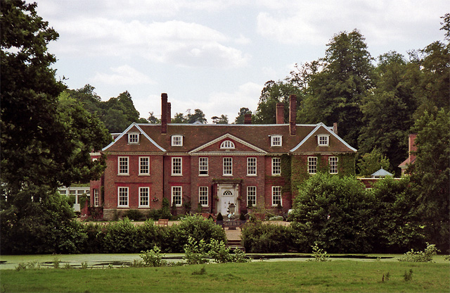 Front view of the house at Chilston Park, Boughton Malherbe